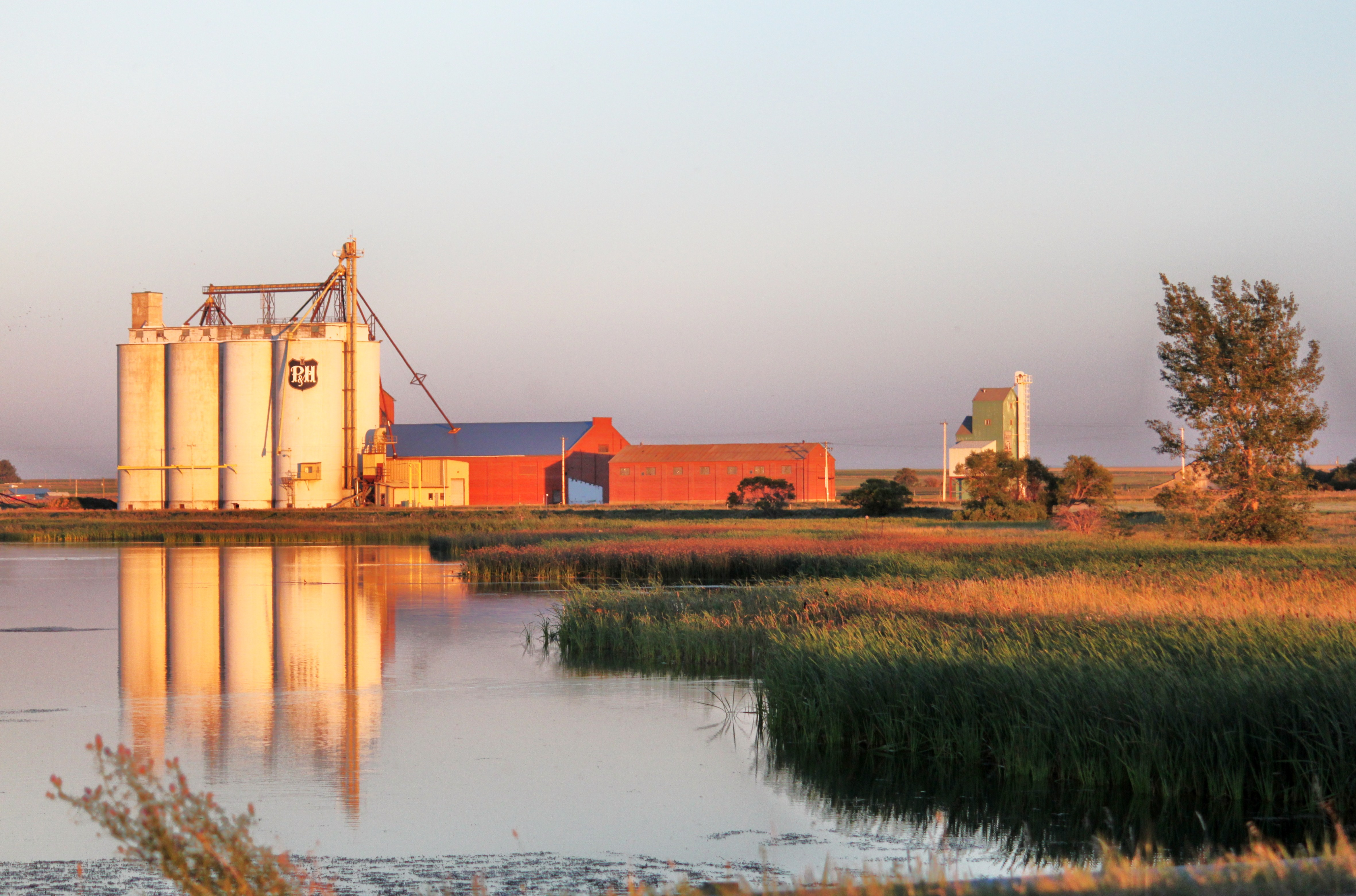 Former Knight Sugar Co. Factory in Raymond, Canada